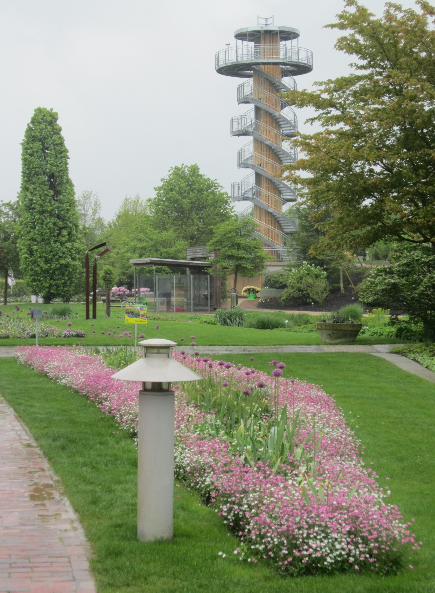 Tower of the "Park der Gärten" in Rostrup (Bad Zwischenahn)